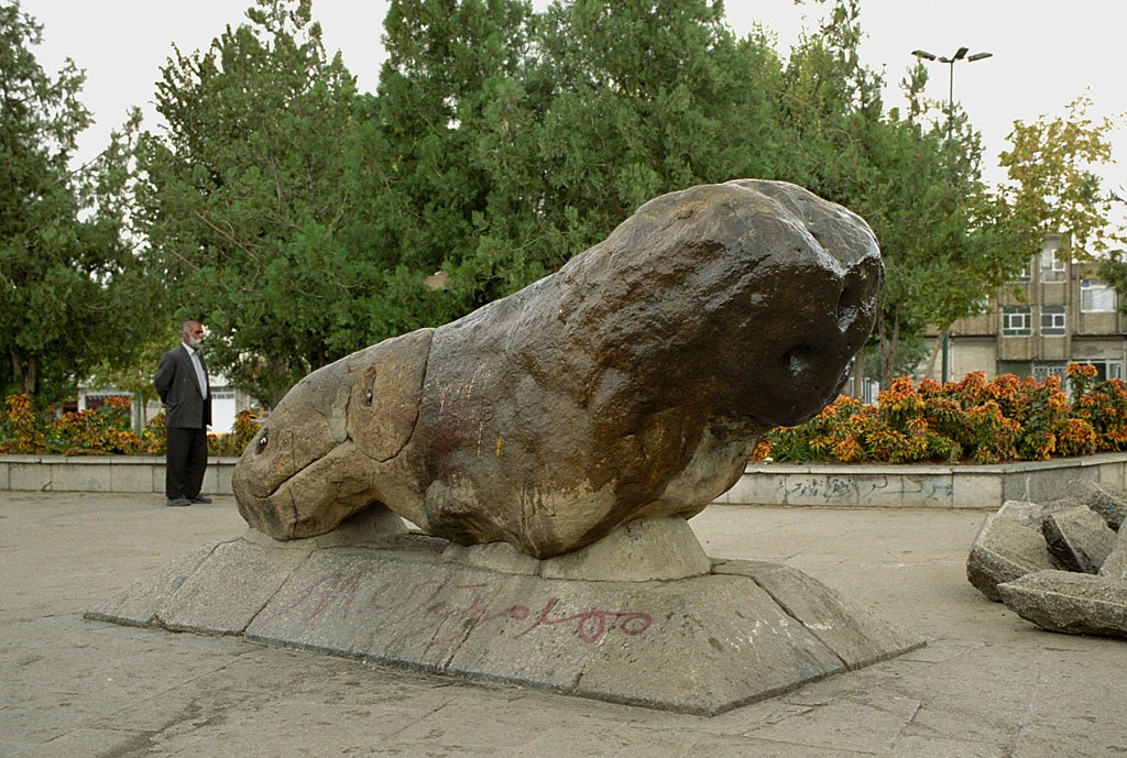 The Sang-e shir, stone lion, is a greek statue from the 4th century BCE, probably a gift of Alexander the Great in the memory of Hephaestion.